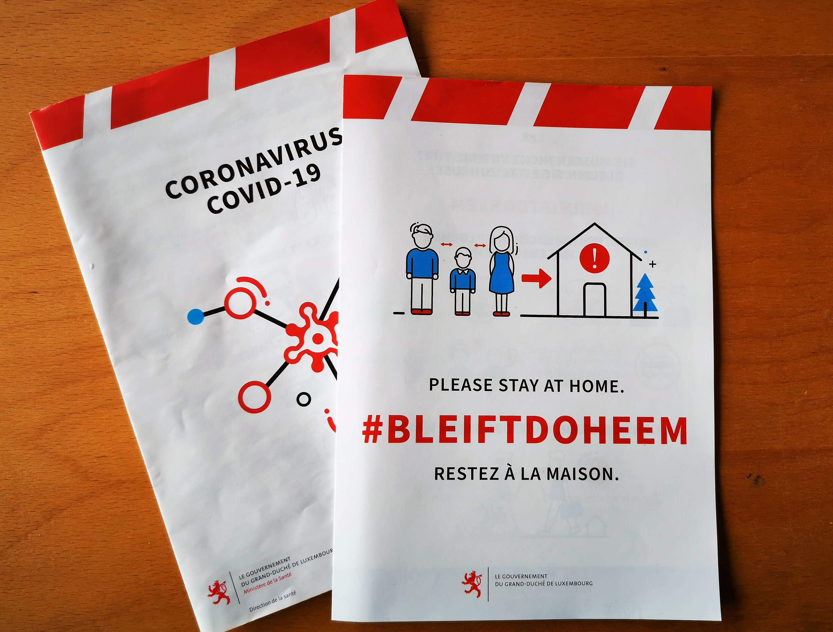 Leaflets with information about the Covid-19 pandemic in Luxembourg.